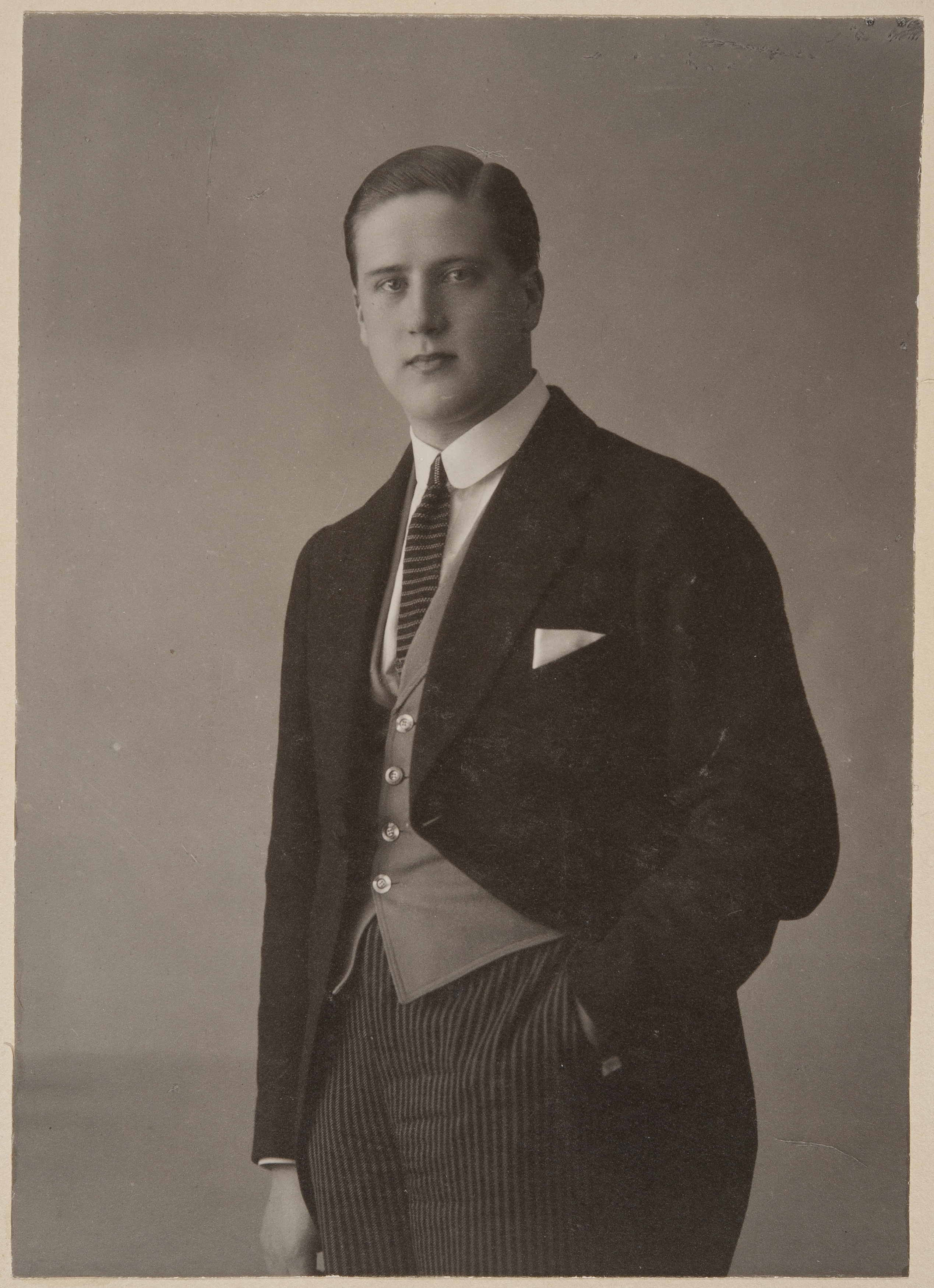 Photograph of the Finnish composer and pianist Ilmari Hannikainen (1892–1955).